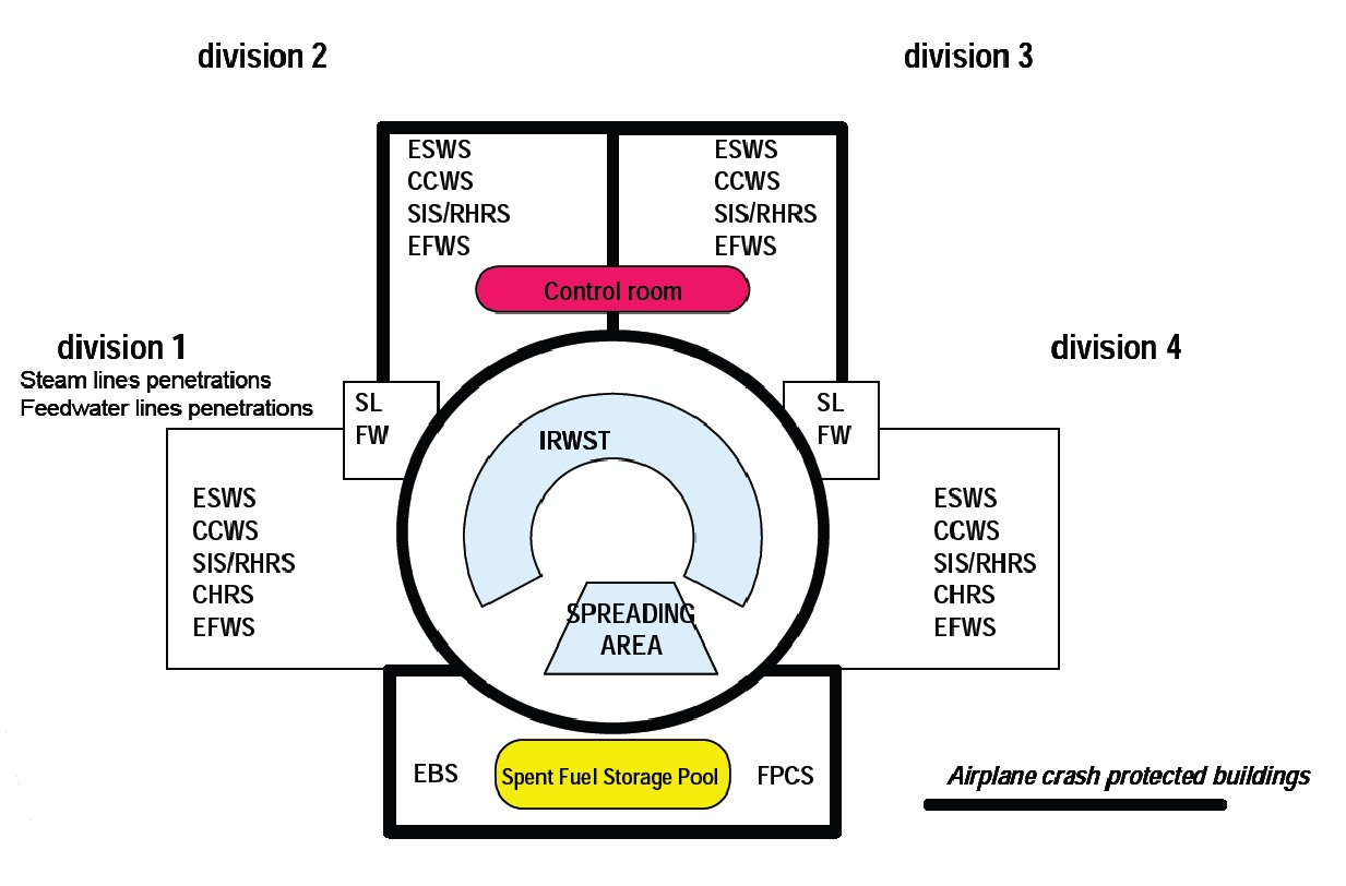 Installation in the Safeguard Buildings in EPR